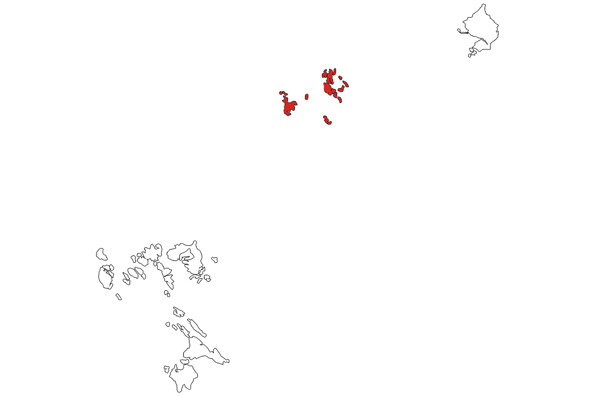 Locator of Anambas Islands Regency within Riau Islands Province